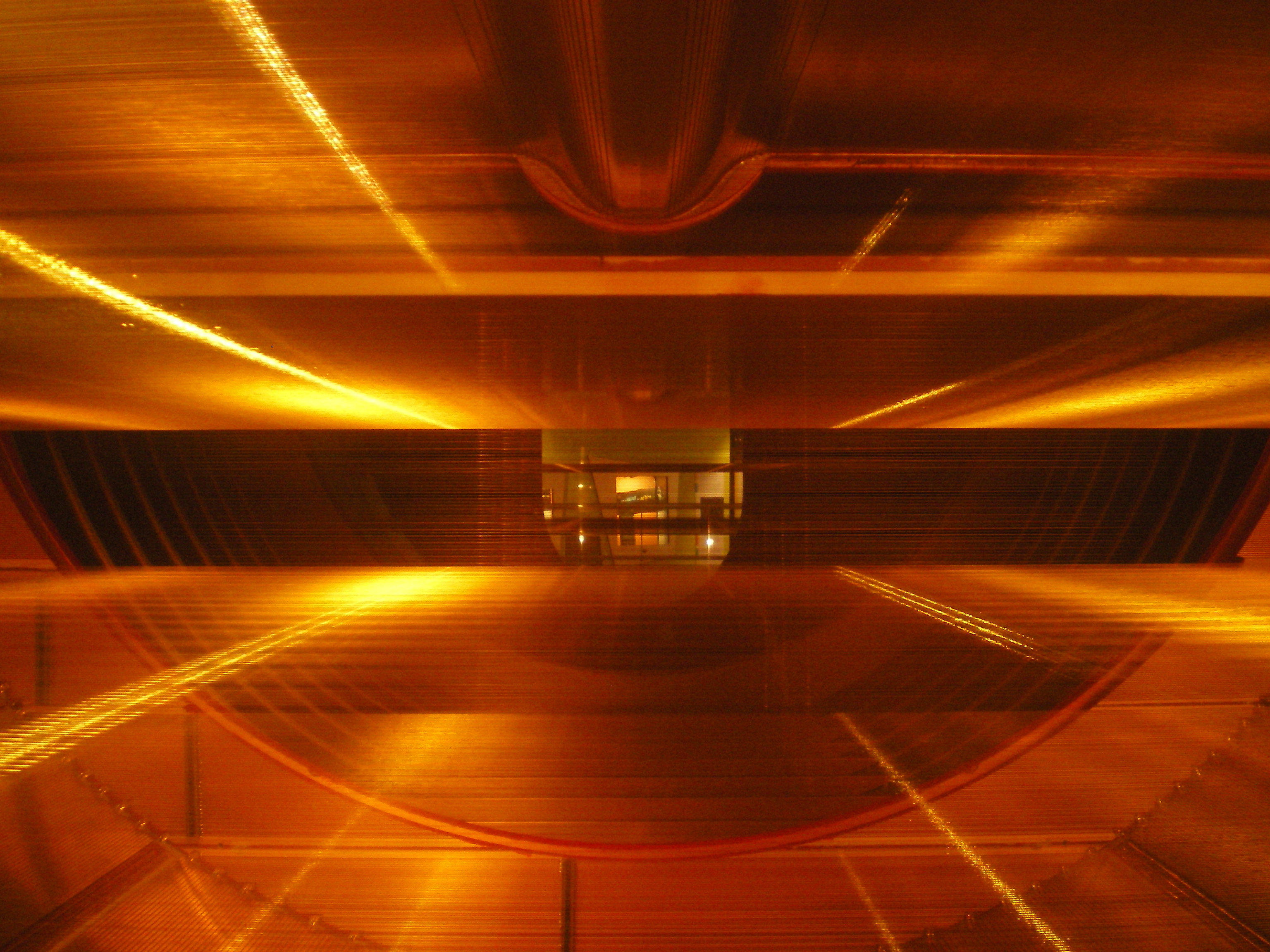 Central detector from CERN's UA1 experiment. Currently on display at CERN's "microcosm" exhibition, where this picture was taken.